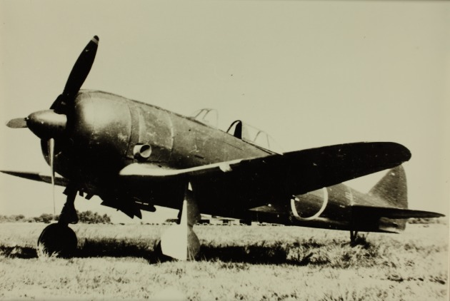 PictionID:6594948 - Catalog:01_00086191 - Title:Nakajima, Ki-44, Shoki 'Devil Queller' Tojo 'John' Army Type 2 Single seat Fighter' - Filename:01_00086191.TIF - Image from the Charles Daniels Photo Collection album "Seversky, Republic and P-47"----PLEASE TAG this image with any information you know about it, so that we can permanently store this data with the original image file in our Digital Asset Management System.----SOURCE INSTITUTION: San Diego Air and Space Museum Archive